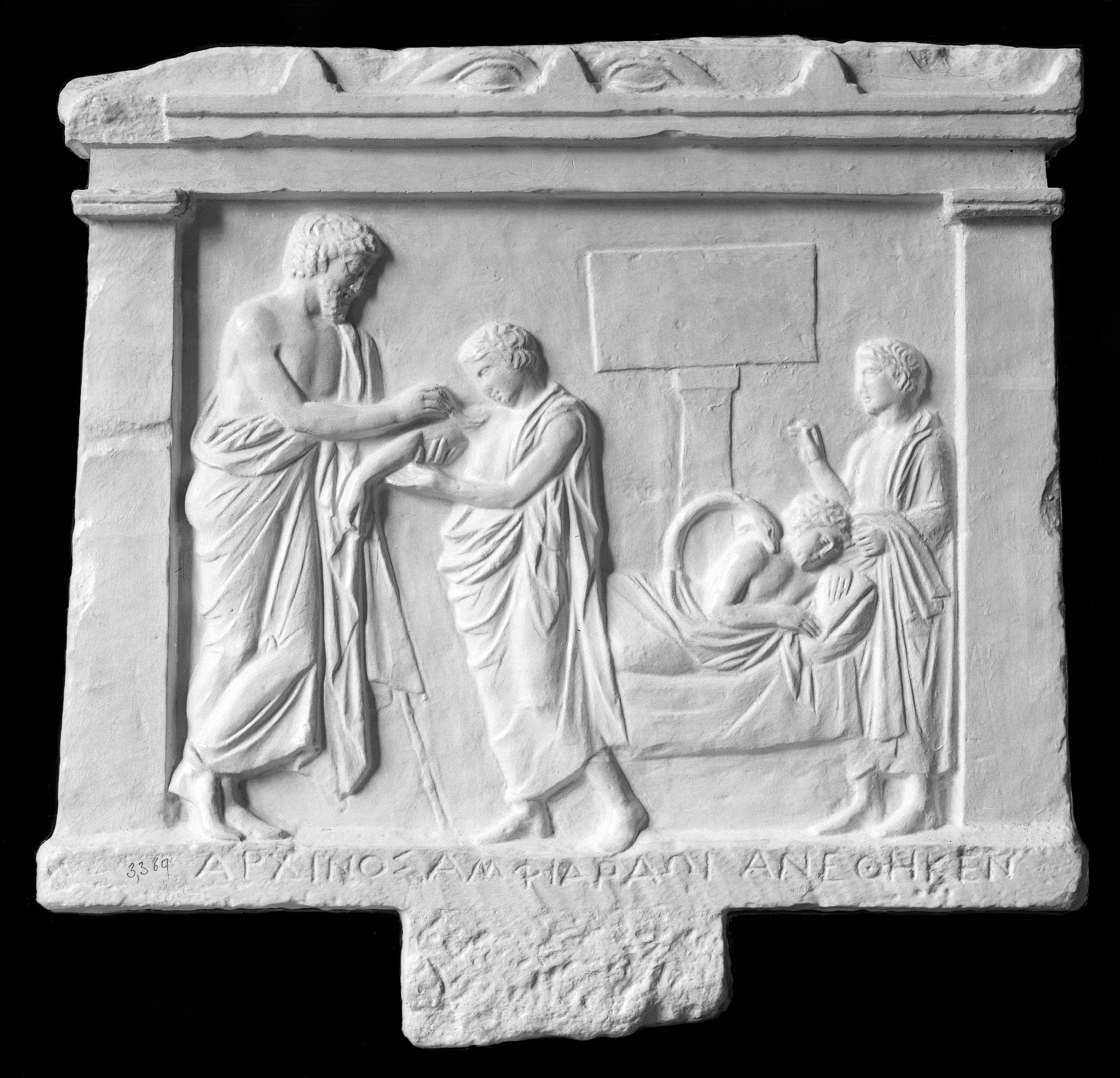 Votive bas-relief at top two prophylactic eyes. Plaster cast of original. Found at temple of Anphiarus near Oropos, Attic art, detail work of IV century. Greece, Aesculapius Wellcome Images Keywords: votive offerings